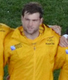 RWC 2011 - Australia Vs Ireland RWC 2011 - Australia Vs Ireland